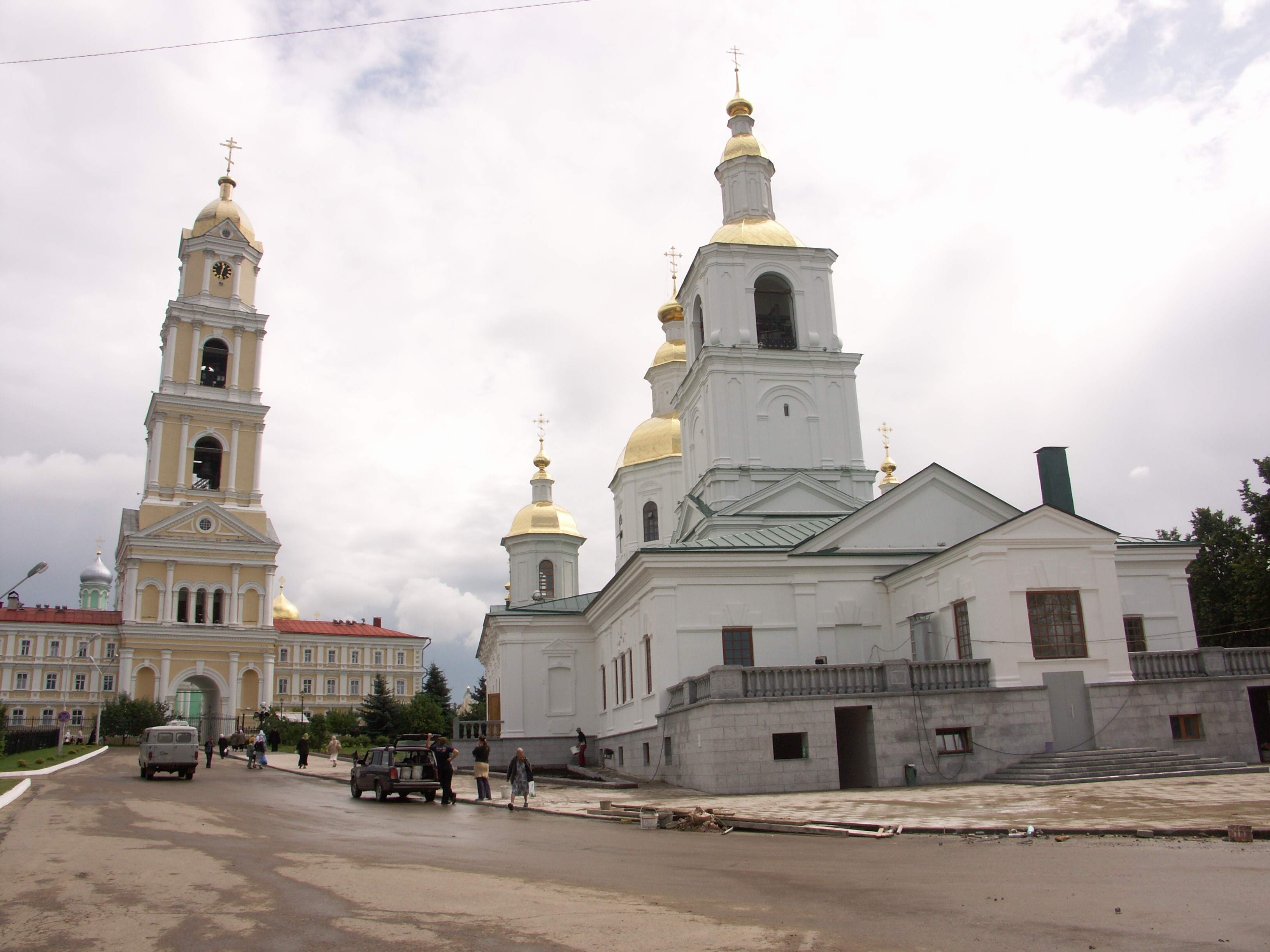 Our Lady Of Kazan Church in Diveevo